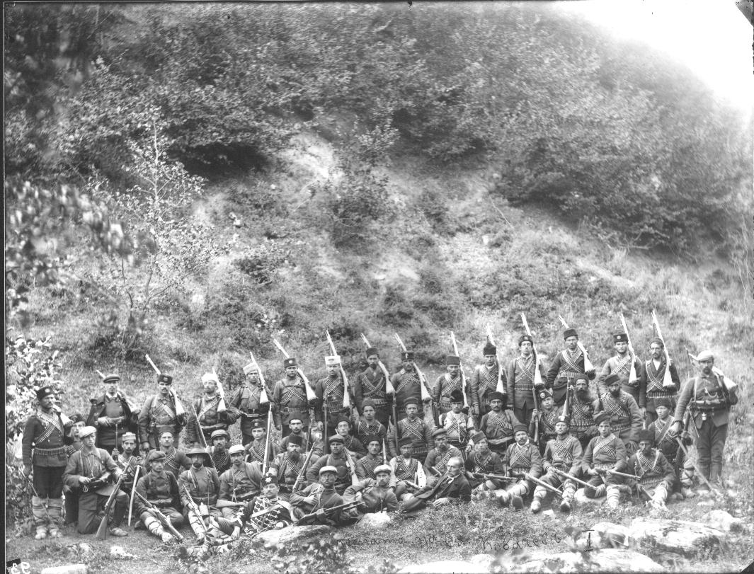 Cheta of bulgarian revolutionary Vladislav Kovachev from SMAC in 1903